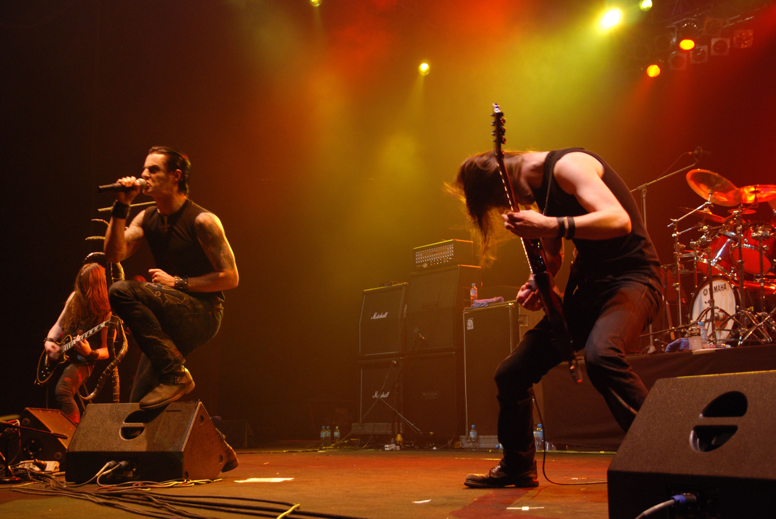 Satyricon during Metalmania 2008 festival